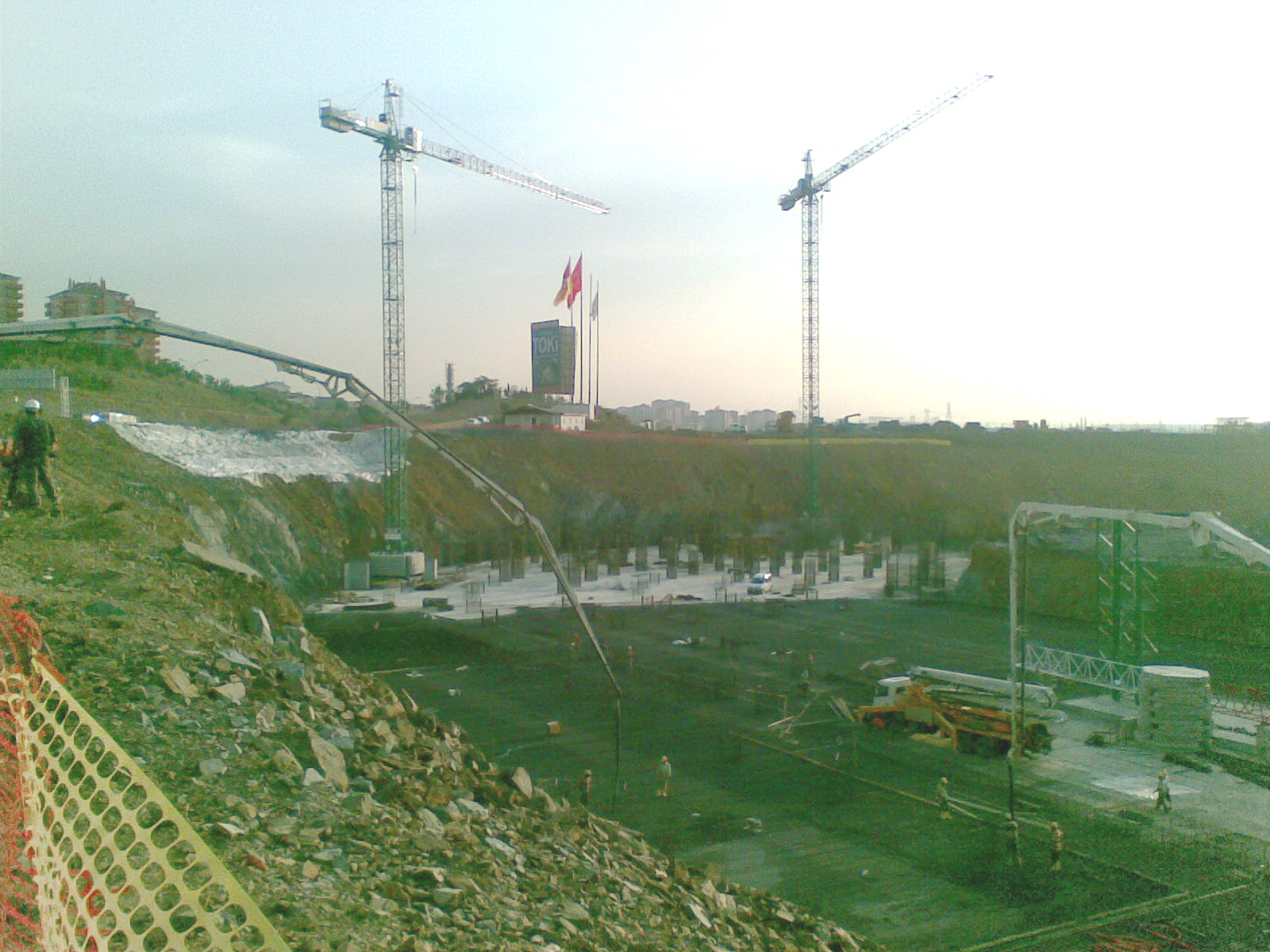 Turk Telekom Arena.